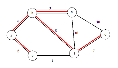 Minimal spanning tree